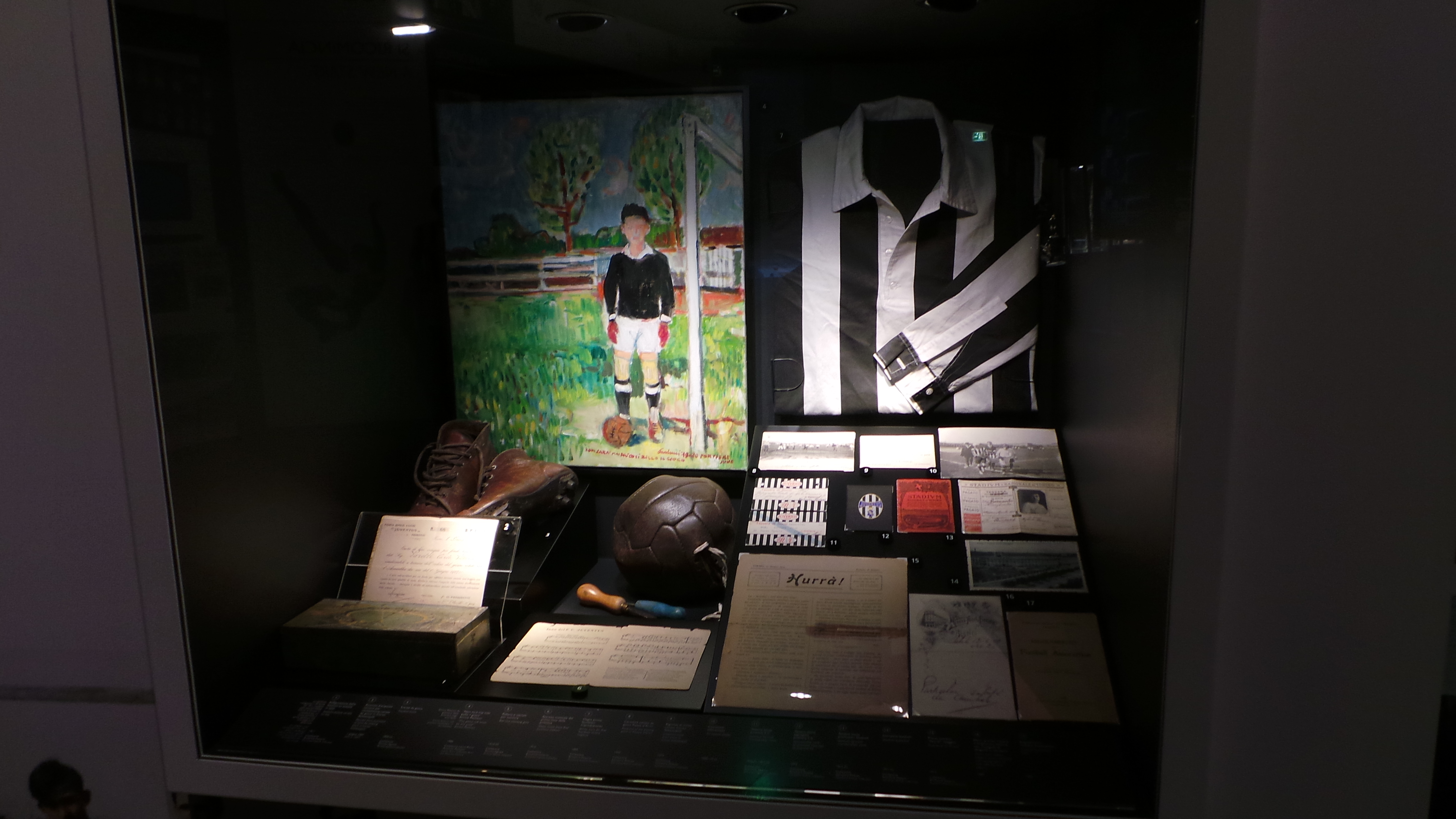 the start